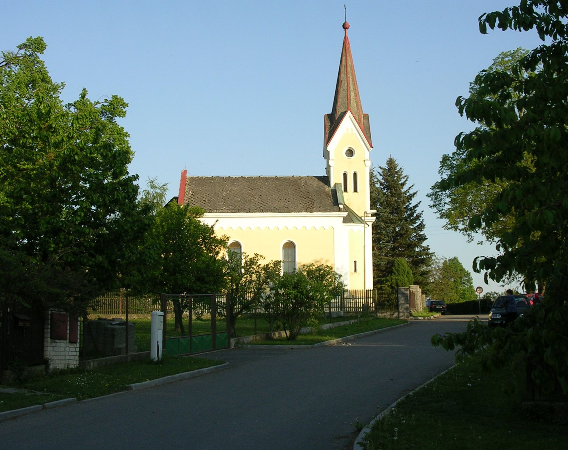 Soběhrdy, Benešov District, Central Bohemian Region, the Czech Republic. Catholic church